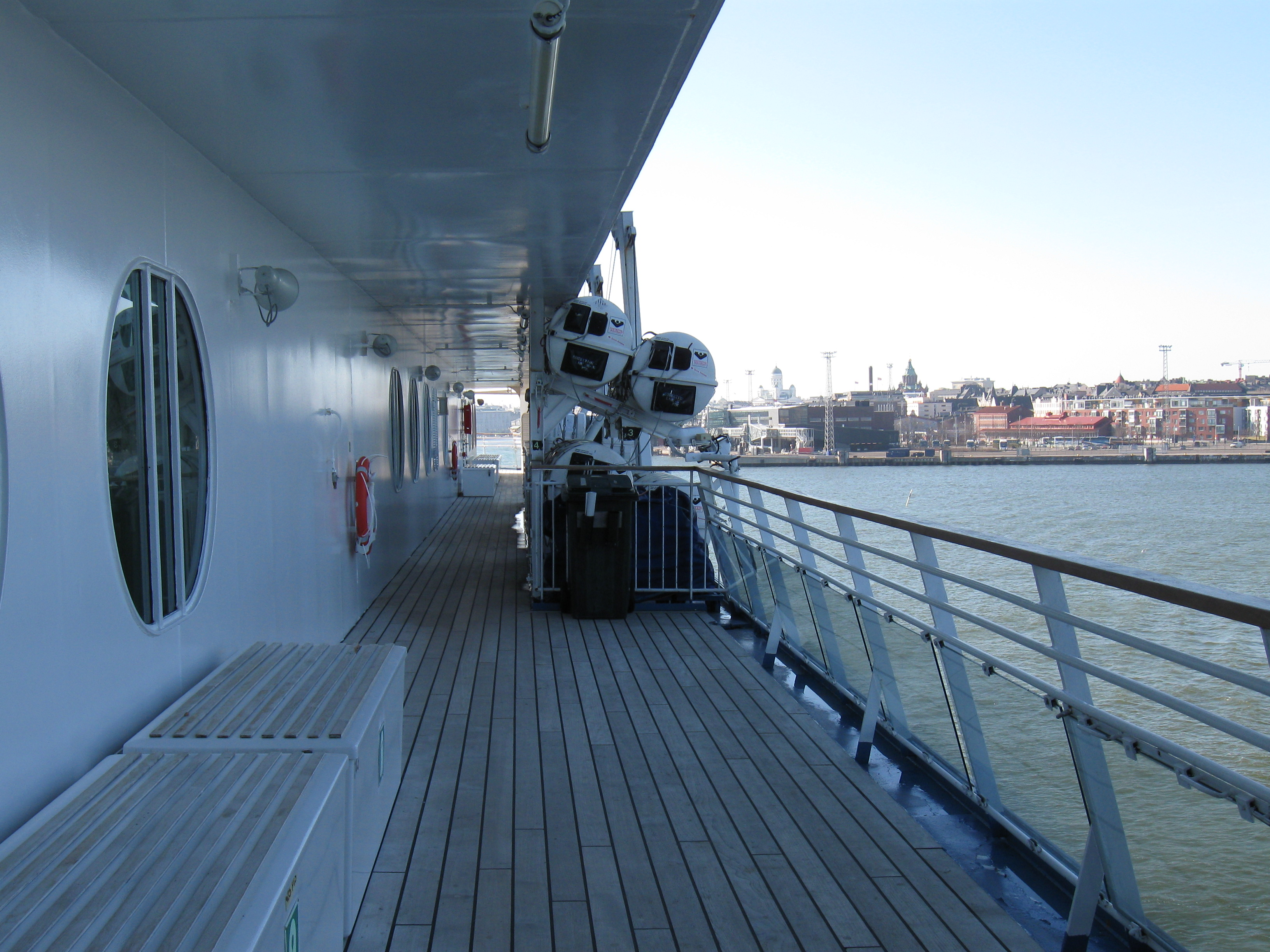 The deck of a Silja Line ship.